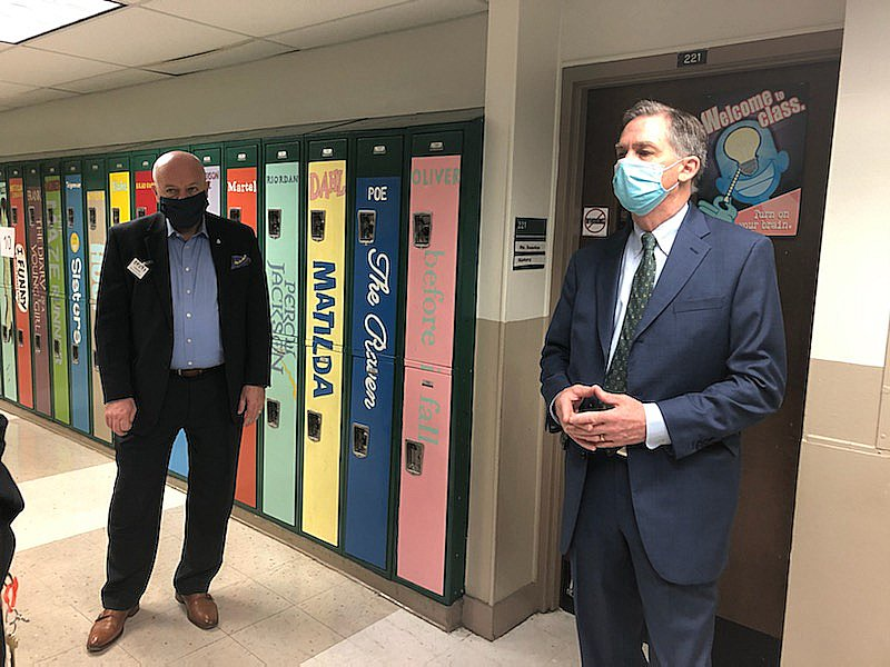 Greatly appreciate @LRSD & @RotaryClub99 for being hometown heroes and helping @UAMShealth offer a day camp for the students of our front line hospital families. Thank you Superintendent Poore and Provost Dr. Gardner for showing me day camp at Pulaski Heights Middle School today.